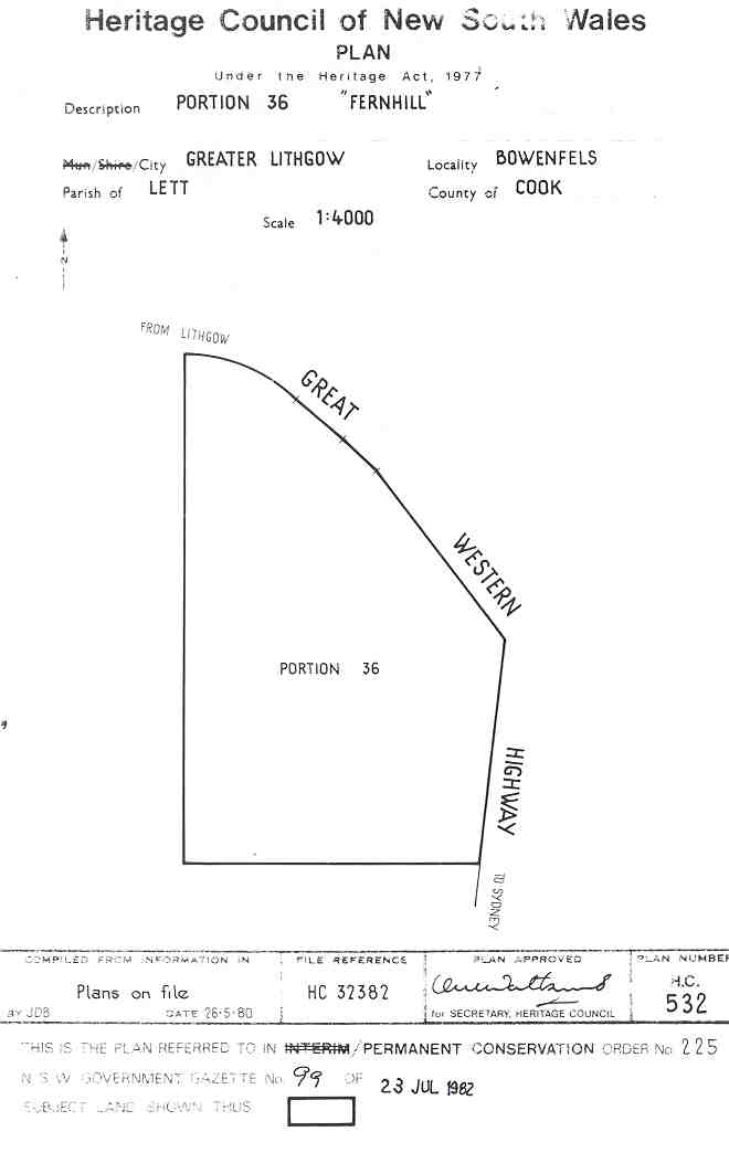 Fernhill, Bowenfels: PCO Plan Number 225